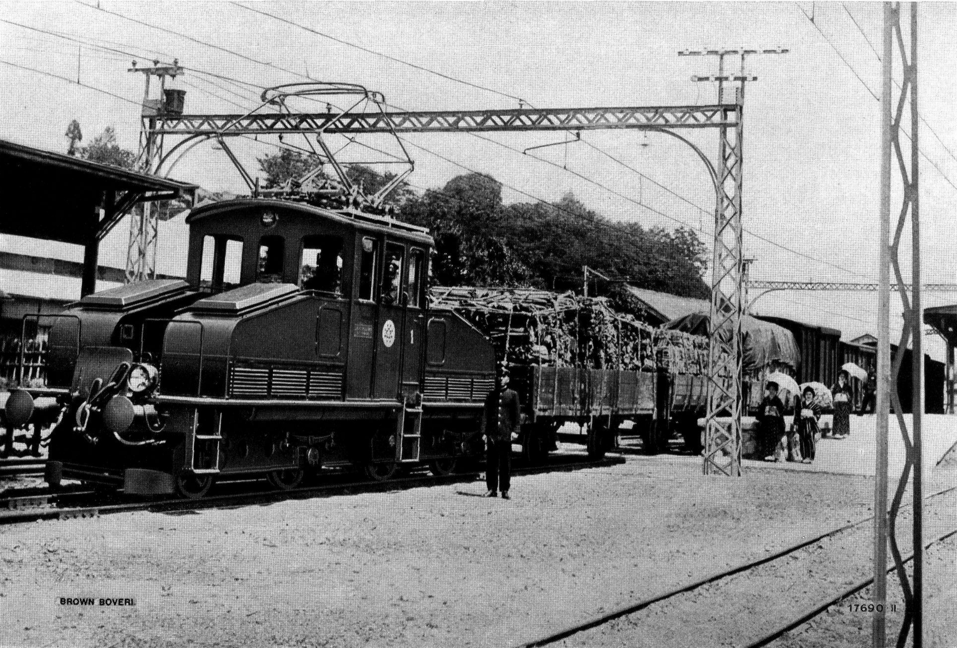 Yoshina Railway, Japan. Goods train drawn by a B-B locomotive in Shimoichiguchi Station